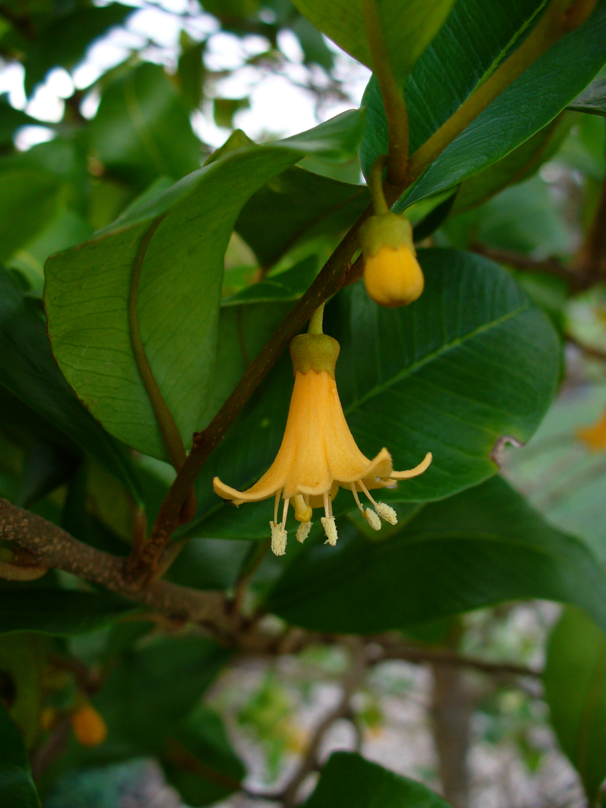 Flower of Goetzea elegans, South Miami, Florida, USA